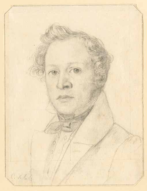 The painter Caspar Klotz (1774-1847)